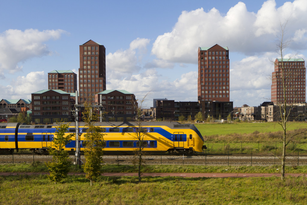 Door Vathorst